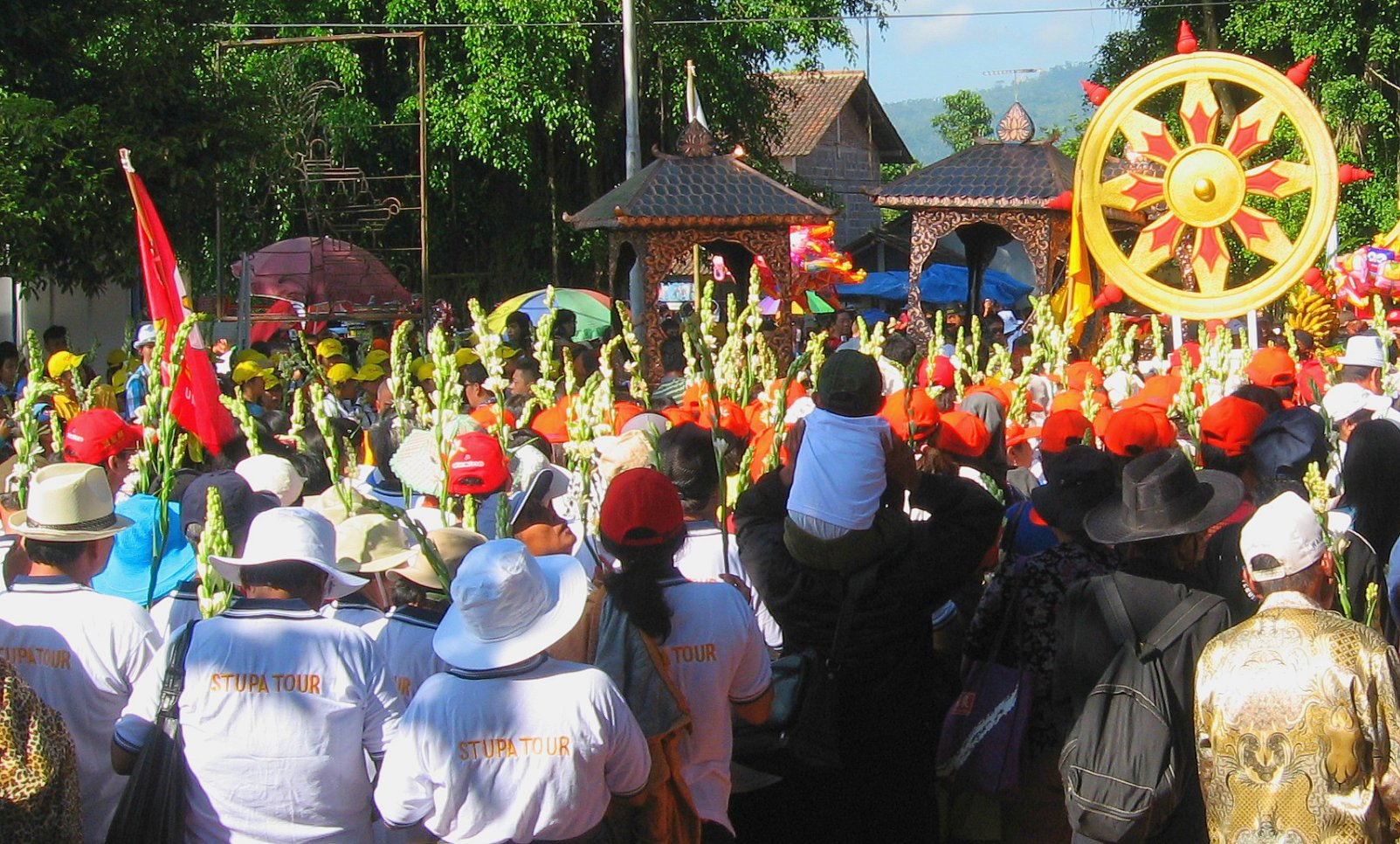 Vesak Day procession, Indonesia. Pilgrims following the Dharma wheel.